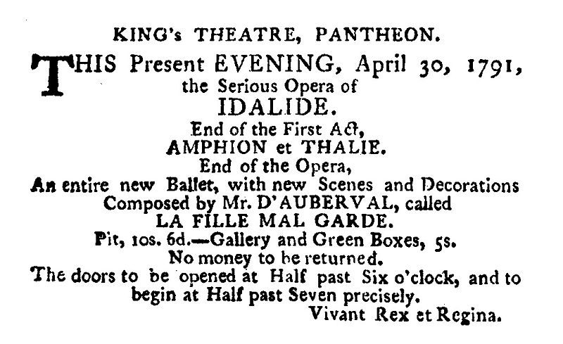 Poster for the 1791 ballet La fille mal gardée by Jean Dauberval (1742–1806)